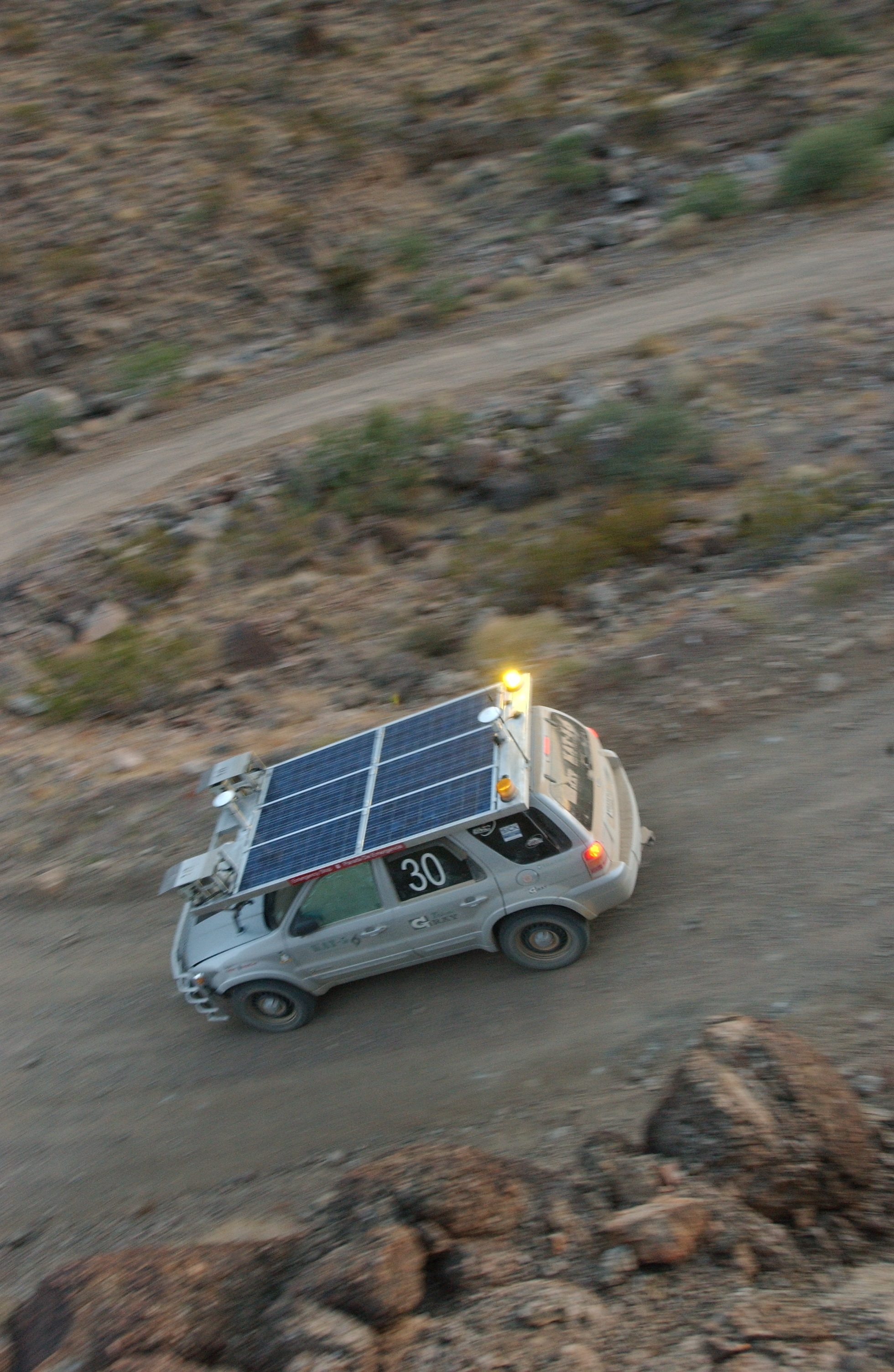 Provided to the public by DARPA. Taken at the 2005 DARPA Grand Challenge, October 8, 2005.